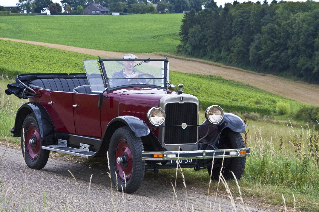 Rollin. Car made in 1924 by The Rollin Motors Co. Cleveland U.S.A.